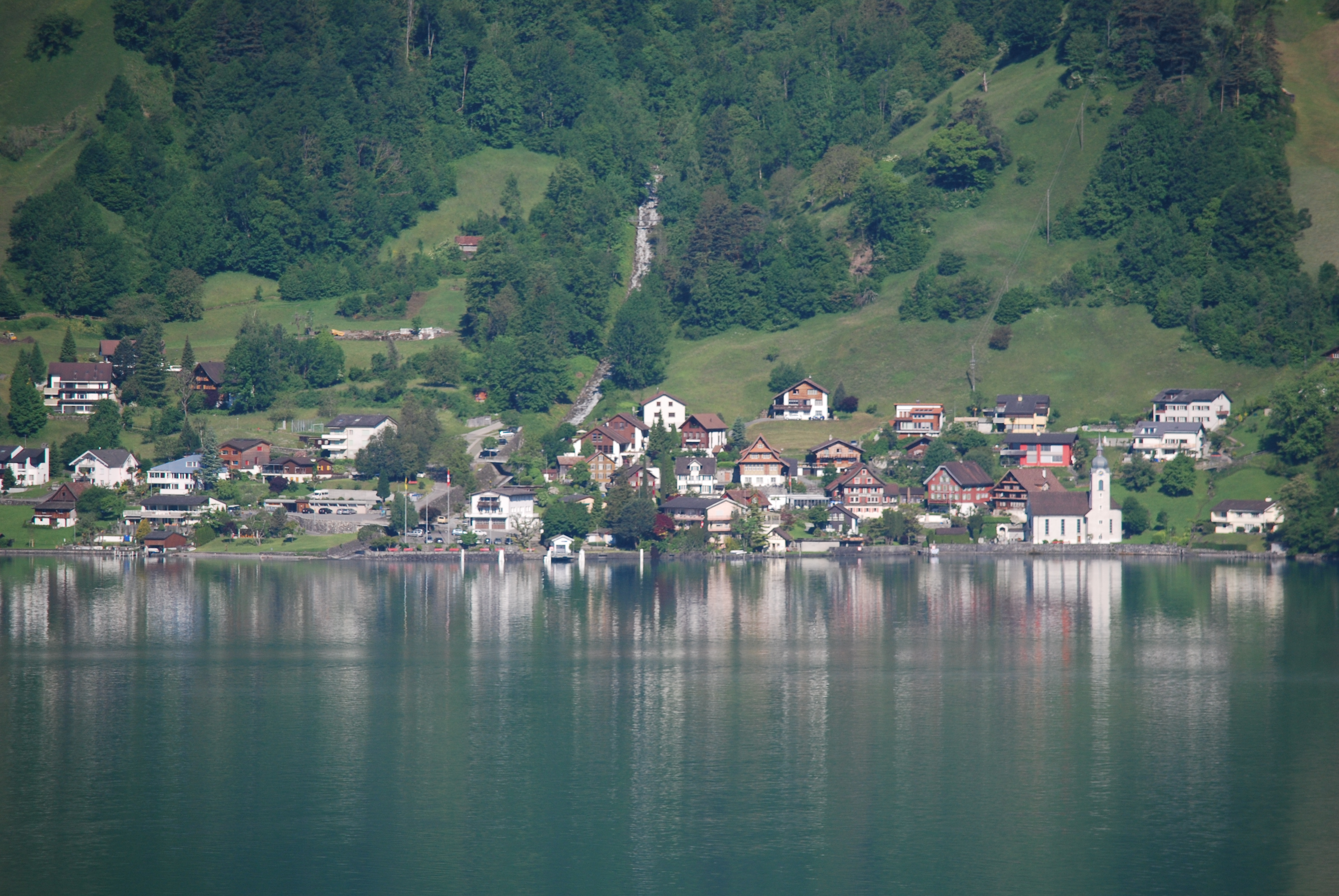 Bauen, canton of Uri, SwitzerlandEsperanto: Bauen, Kantono Urio, Svislando